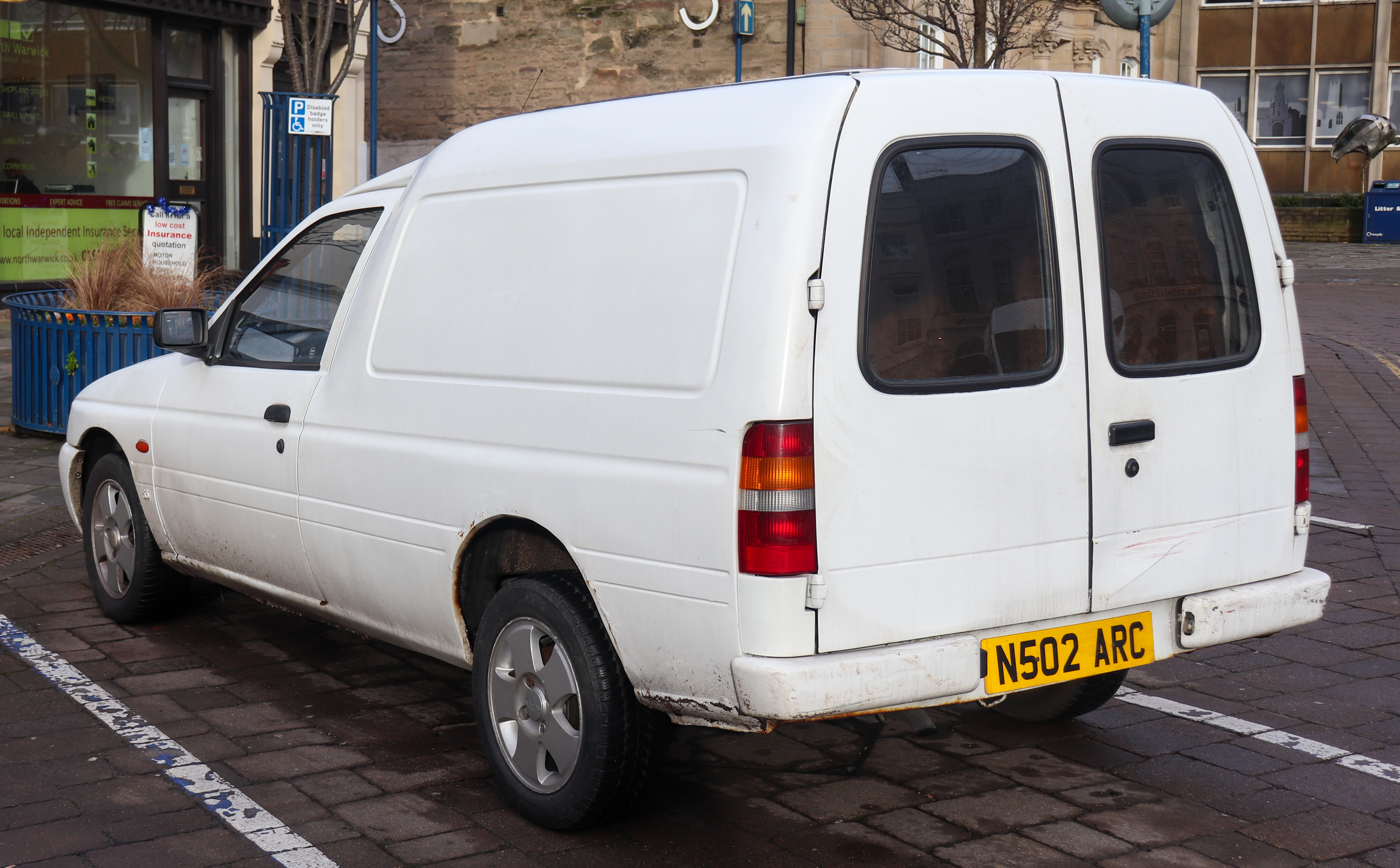 1996 Ford Escort 75 Diesel 1.75 Rear Taken in Warwick